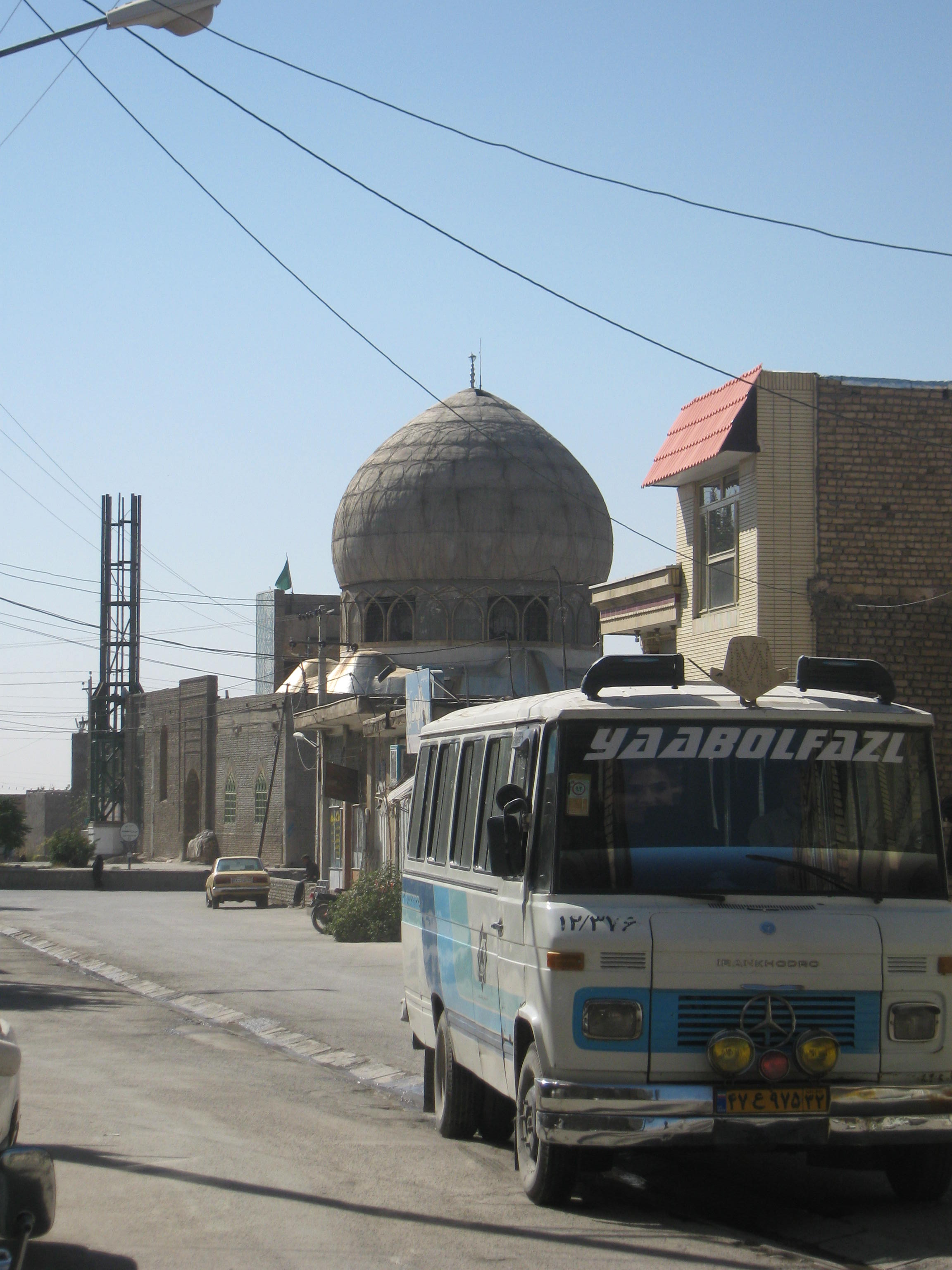 Shatita Mosque (Bibi Shatiteh) Dome and zone view - Nishapur